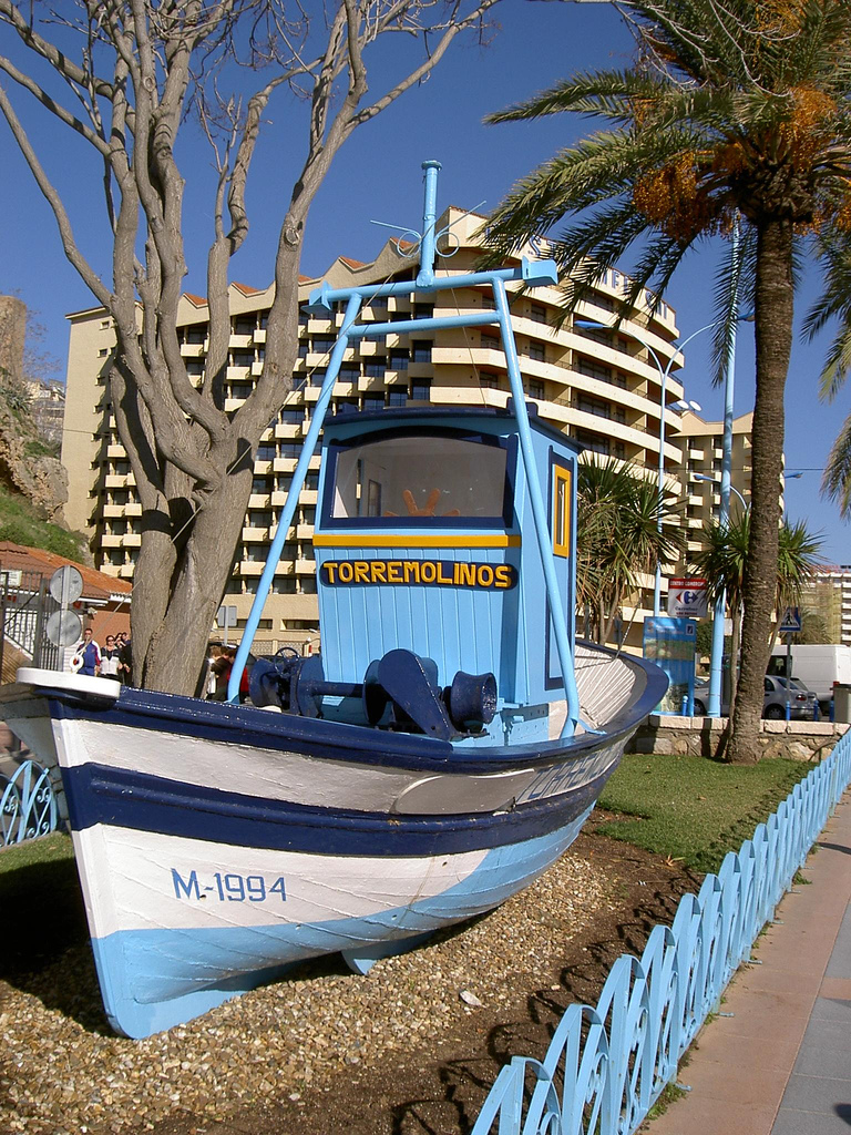 Boat M-1994 in Torremolinos, Spain.